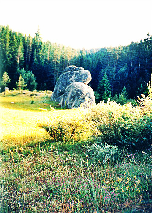 Kara Kaya Sanctuary WestRhodopes Bulgaria